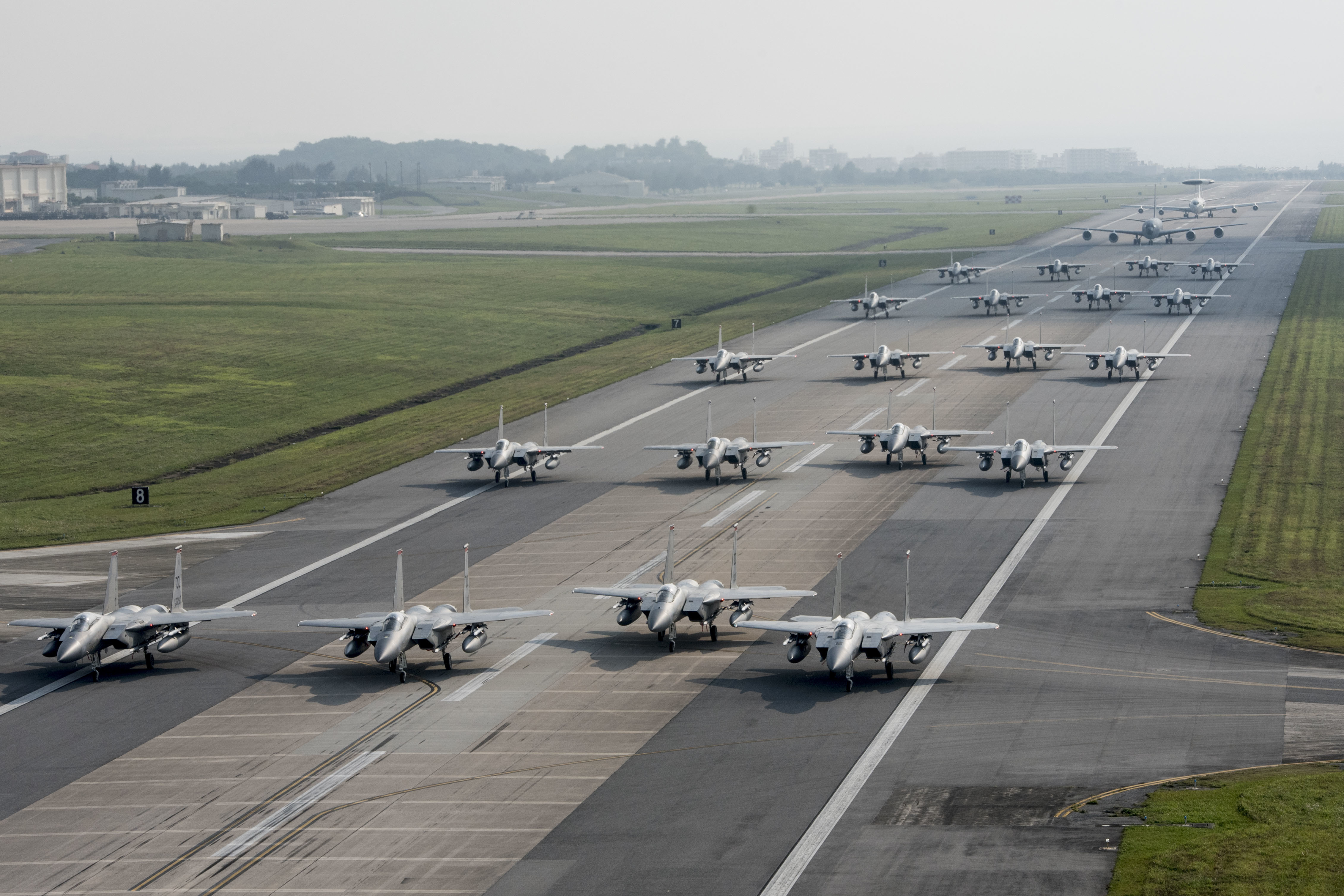 Aircraft from the 18th Wing perform an elephant walk during a no-notice readiness exercise April 12, 2017, at Kadena Air Base, Japan. Aircraft from the 33rd Rescue Squadron, 44th and 67th Fighter Squadrons, 909th Air Refueling Squadron,and the 961st Airborne Air Control Squadron generated simultaneously for the elephant walk to demonstrate Kadena's ability to sortie all combat aircraft assets in a short amount of time.